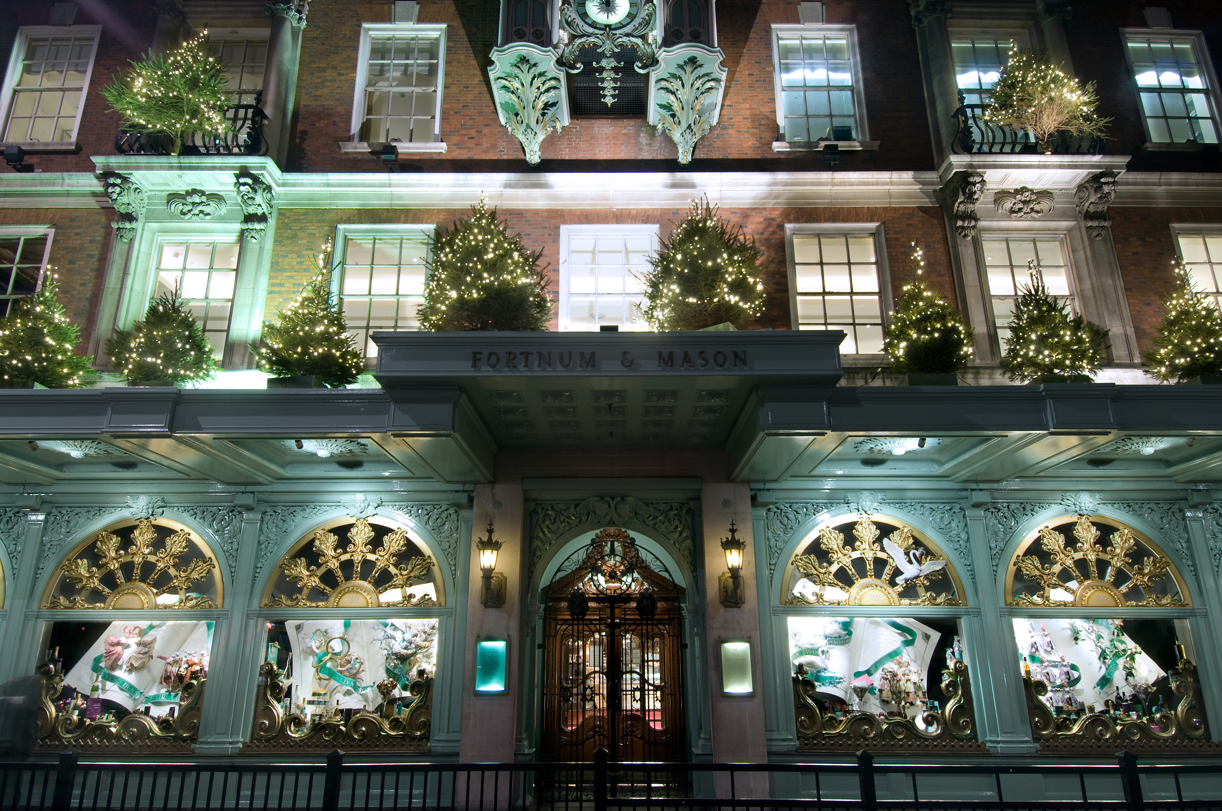 image of the front of fortnum and mason in Picadilly. photographed in 2005 by Andrew Meredith